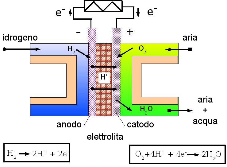 A fuel cell with captions in Italian